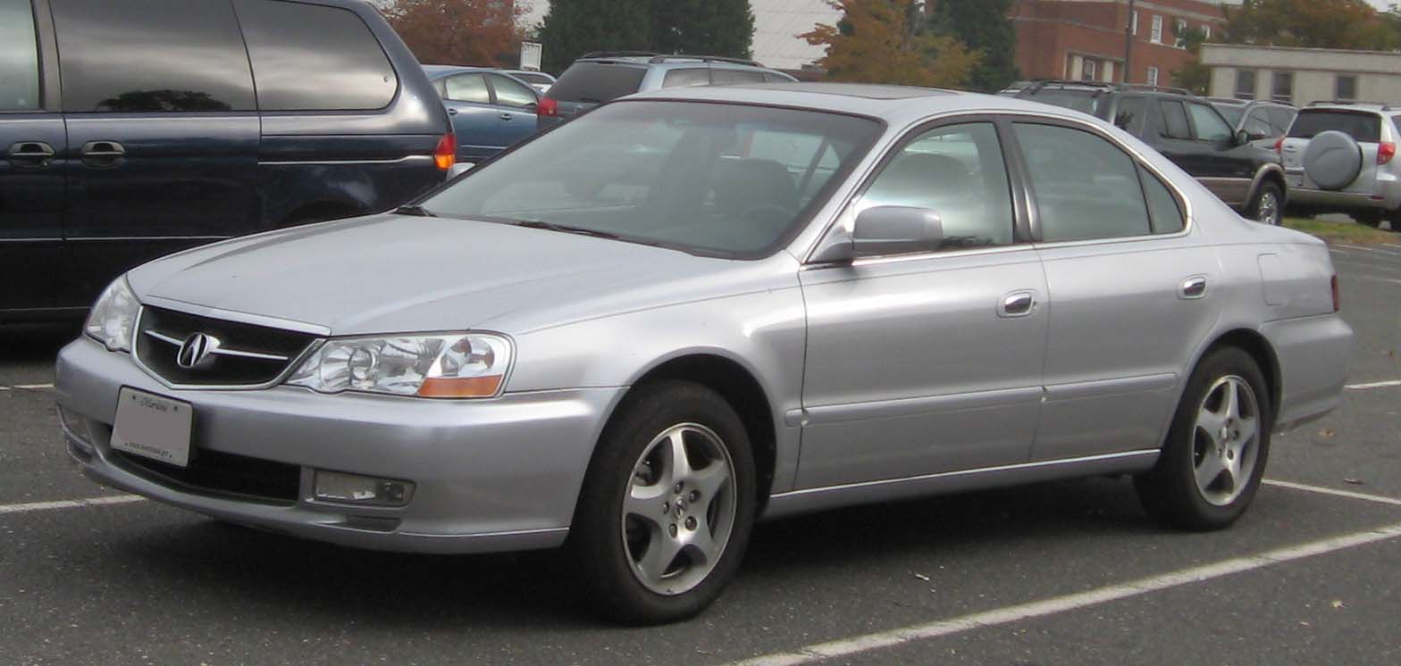 2002-2003 Acura TL photographed in College Park, Maryland, USA.